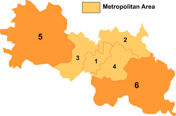 Map of Zigong in Sichuan province ，图中1为自流井区，2为大安区，3为贡井区，4为沿滩区，5为荣县，6为富顺县。